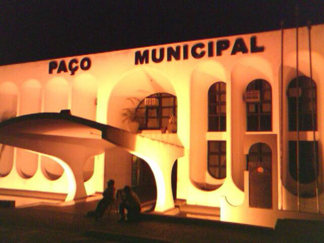 Photo of Tupã City Hall at night. Tupã is a city in São Paulo state. Source: Denis Gomes Franco